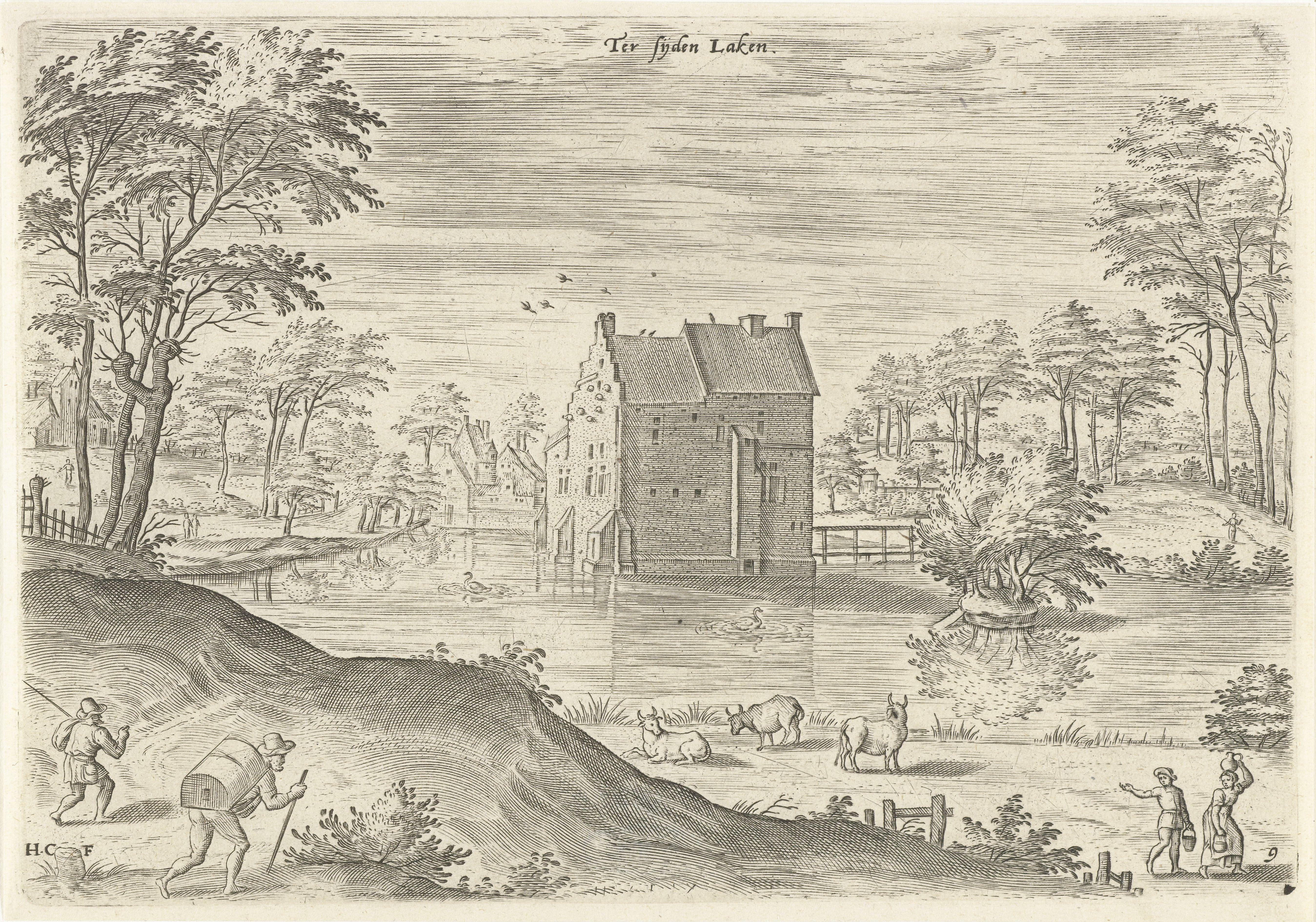 Etching by Hans Collaert (I) after Hans Bol-Jacob Grimmer, from a series of 24 views of Brussels and surroundings, published by Claes Jansz. Visscher (II) in the 16th century.